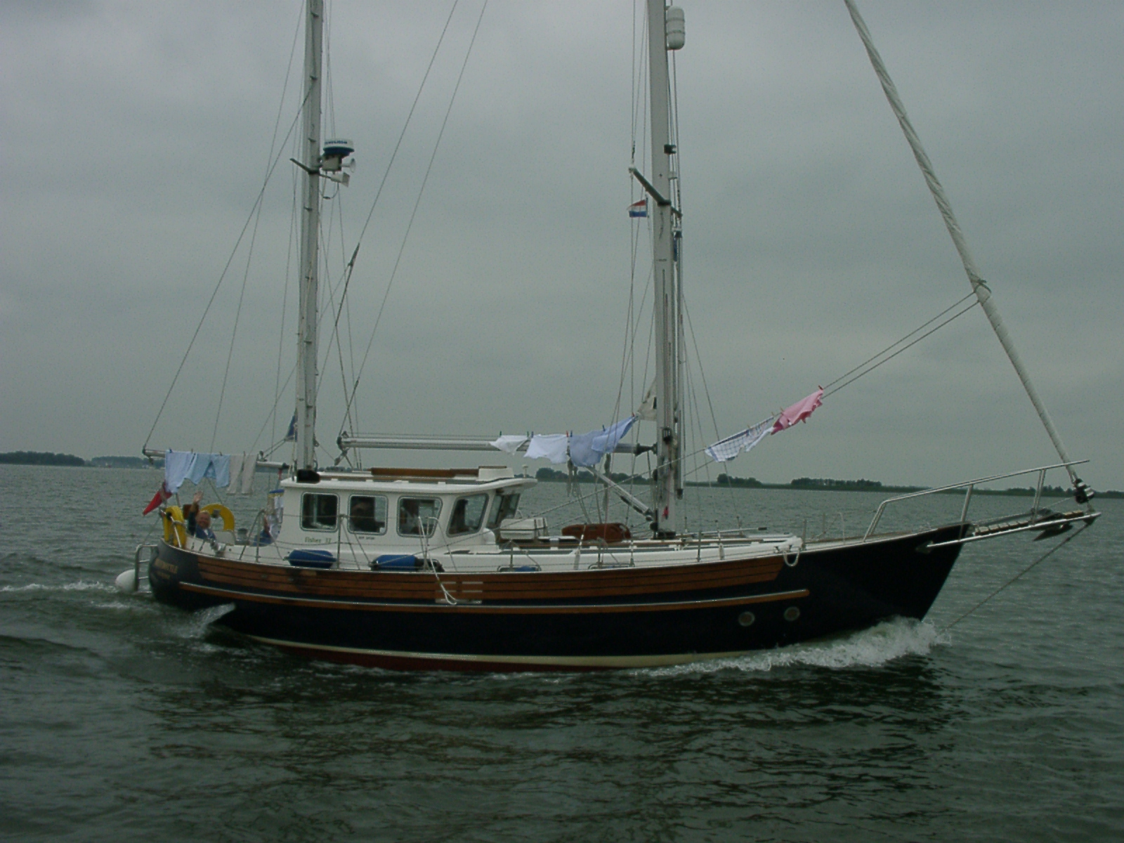 Fisher 37 sailing. Taken after a Fisherclub meeting in Monnickendam, The Netherlands